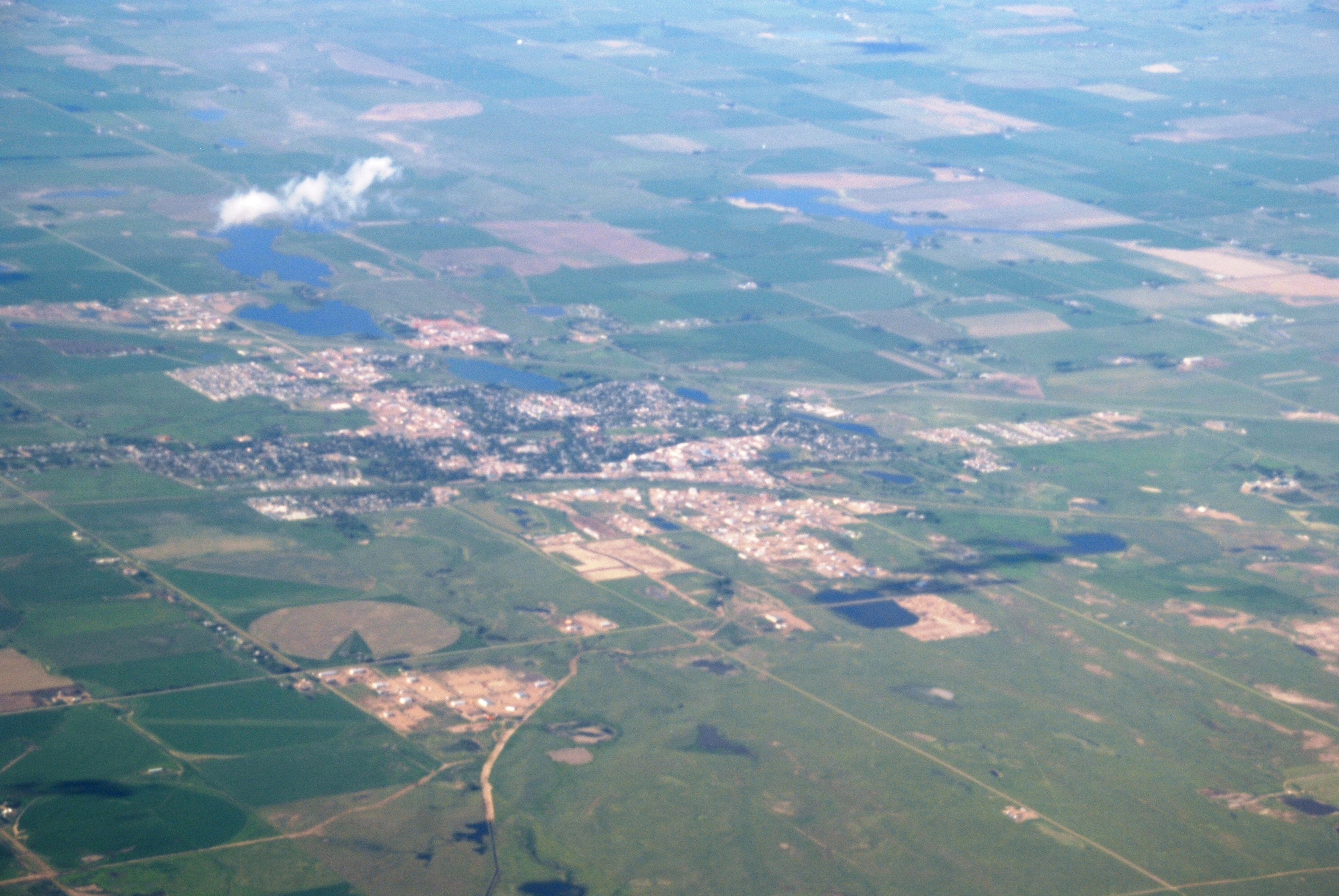 View of Brooks, Alberta from the sky.